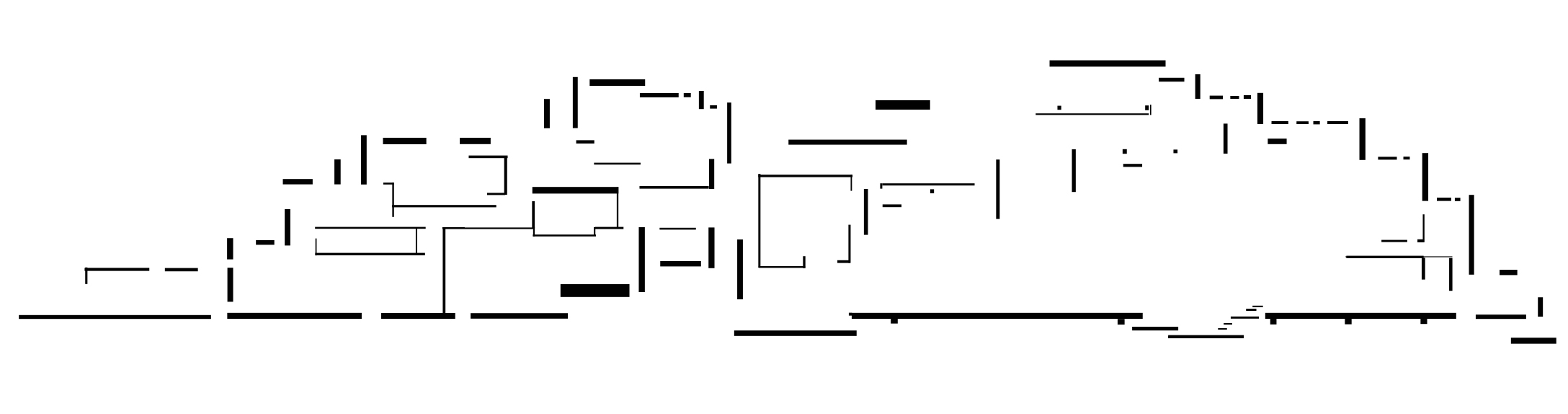 Own drawing of a compositional analysis of Juha Leiviskä's Myyrmäki Church, Vantaa, Finland Other information This is my own diagrammatic analysis of the plan of Juha Leiviskä's Myyrmäki Church, Vantaa (1984); it is not in any scale and does not reproduce the plan of the building.